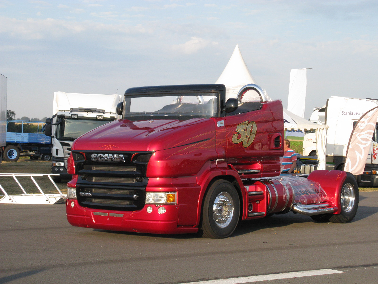 by Svempa